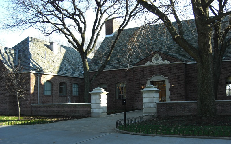 The main entrance of the Dyker Beach Golf Course club house. Created by user:Cjz208.